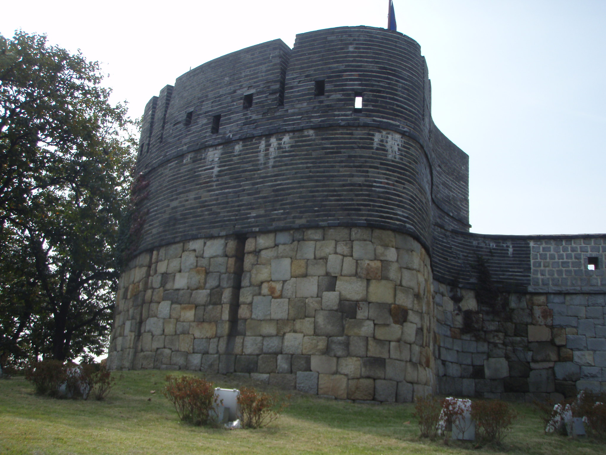 DongbukNodae Suwon Hwaseong Fortress